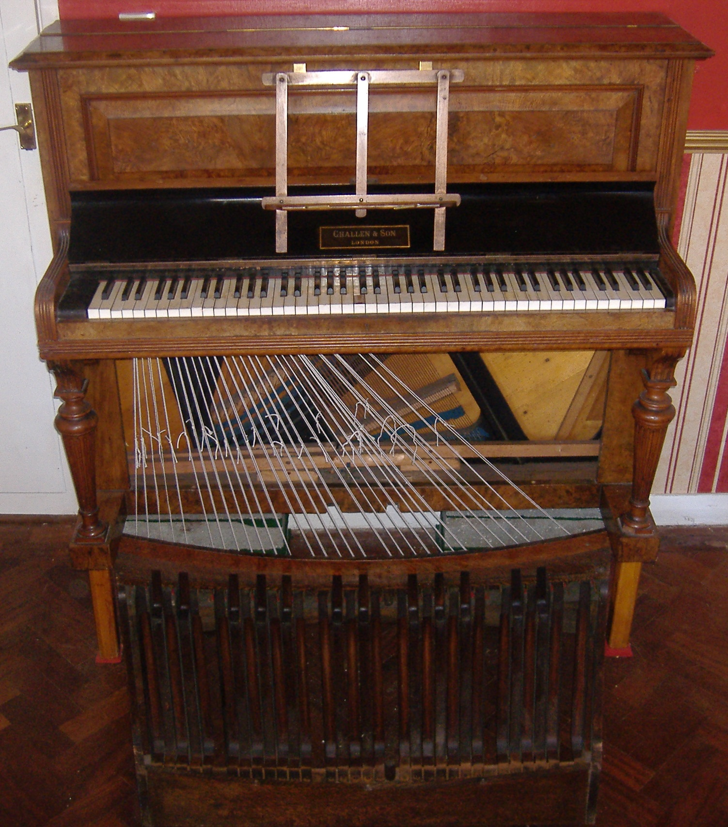 An upright piano with pedal board. The pedals are connected by string to the lower octaves of the piano keyboard, so the bass notes can be played with the feet, like on an organ.